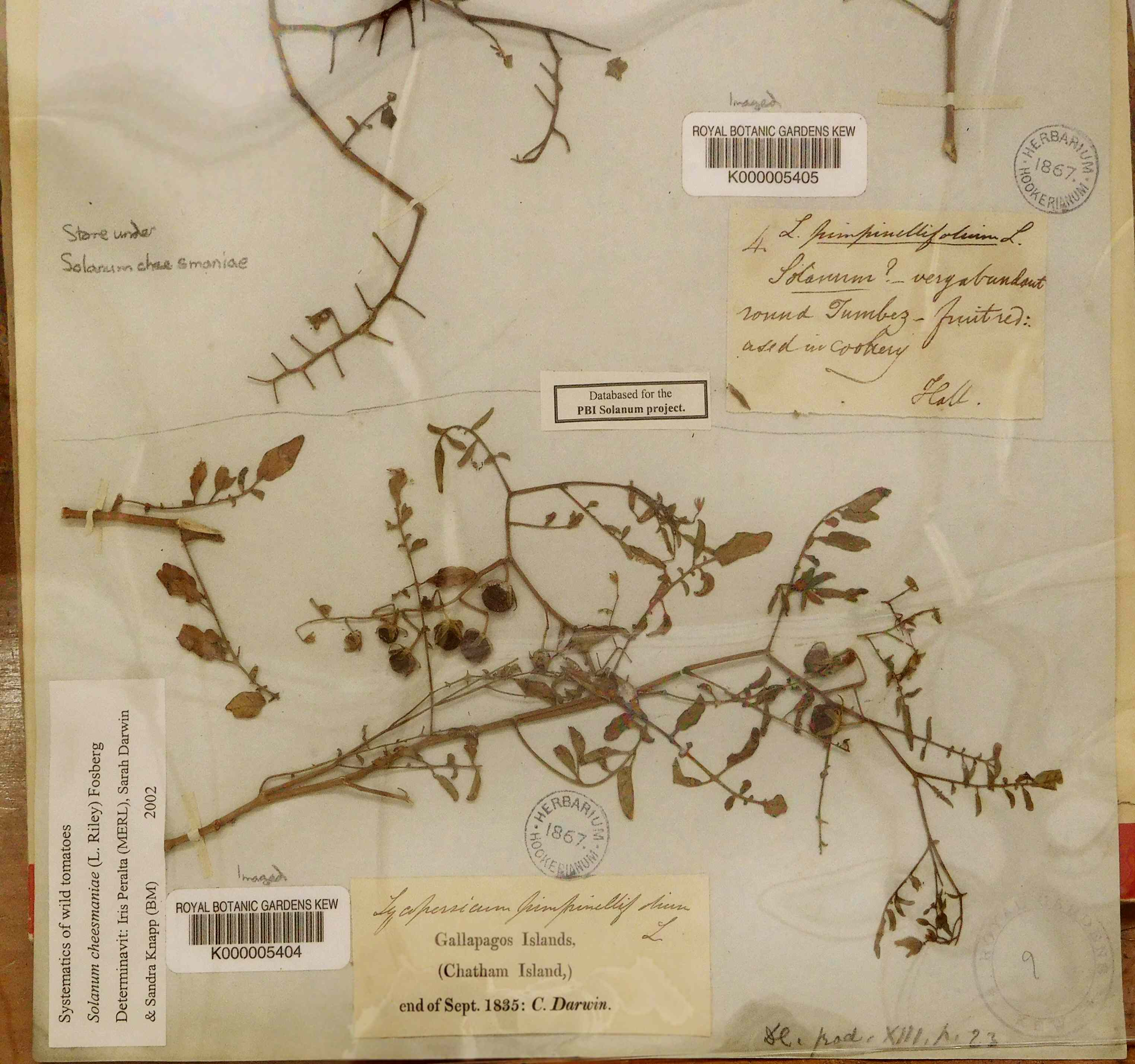 Solanum cheesmaniae Kew herbarium sheet prepared by Charles Darwin Chatham Island Galapagos Sept 1835 during the voyage of HMS Beagle. The presence of the Kew barcode indicates that the sheet has been digitised. The note in Darwin's handwriting "Solanum?" indicates that he correctly but tentatively identified the genus. The sheet is date-stamped Kew Herbarium 1867; the modern species name was determined in 2002 by Iris Peralta, Sarah Darwin and Sandra Kemp.